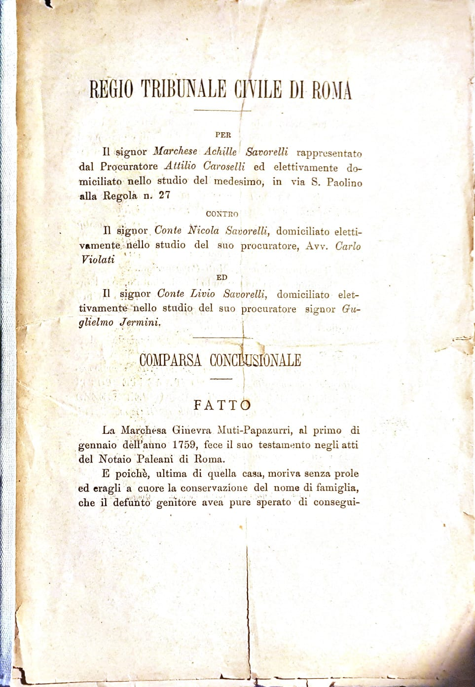 Achille Savorelli's final appearance